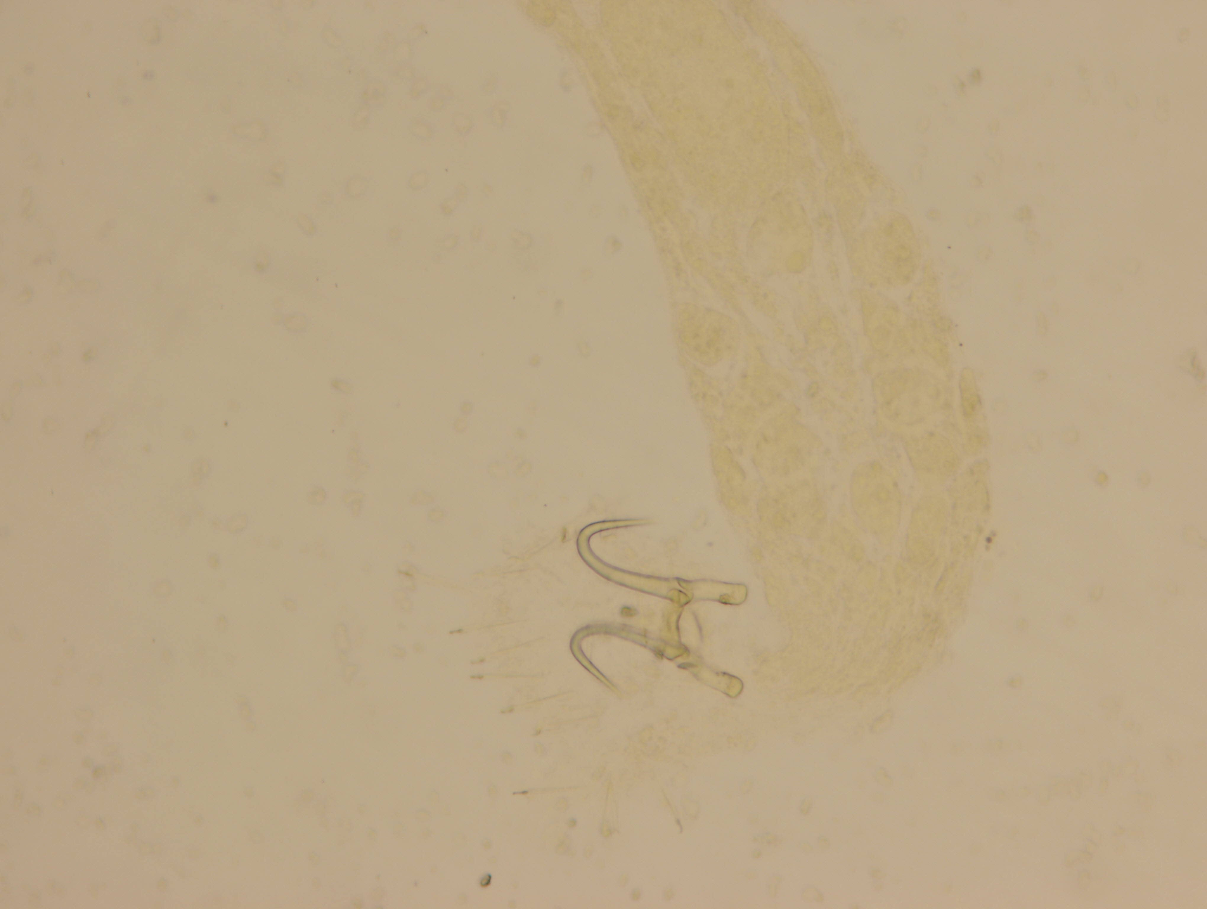 Gyrodactylus longoacuminatus from the Prussian carp (Carassius gibelio), Czech Republic